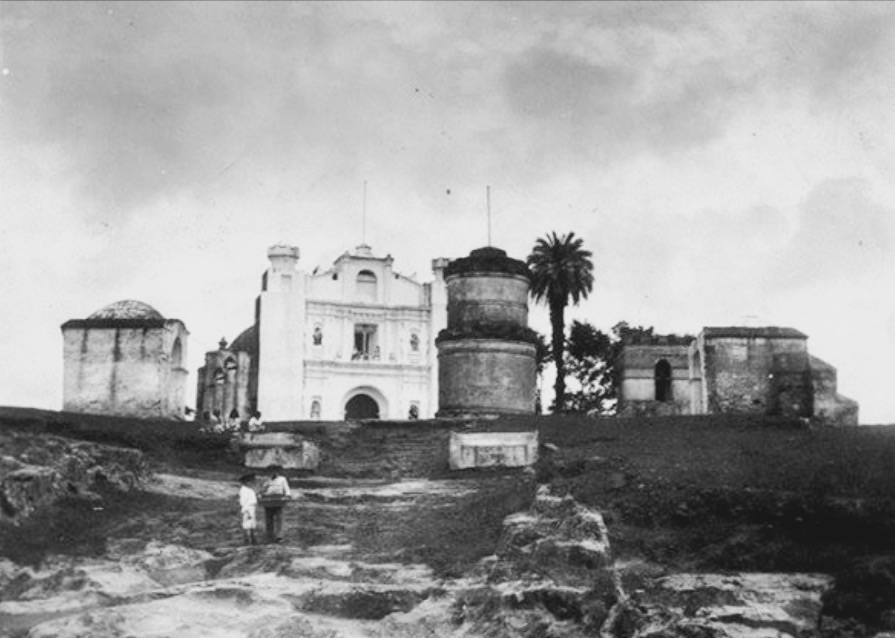 Cerrito del Carmen en 1875